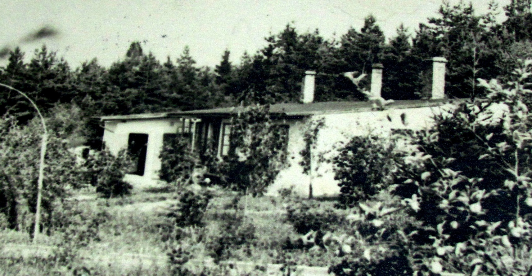 Felbabka (Beroun district) - a cottage used in the 30th and 40th of 20th century jointly by family of Otomar Korbelář, Czech actor and František Salzer, Czech theatre director (photo dated 1944)